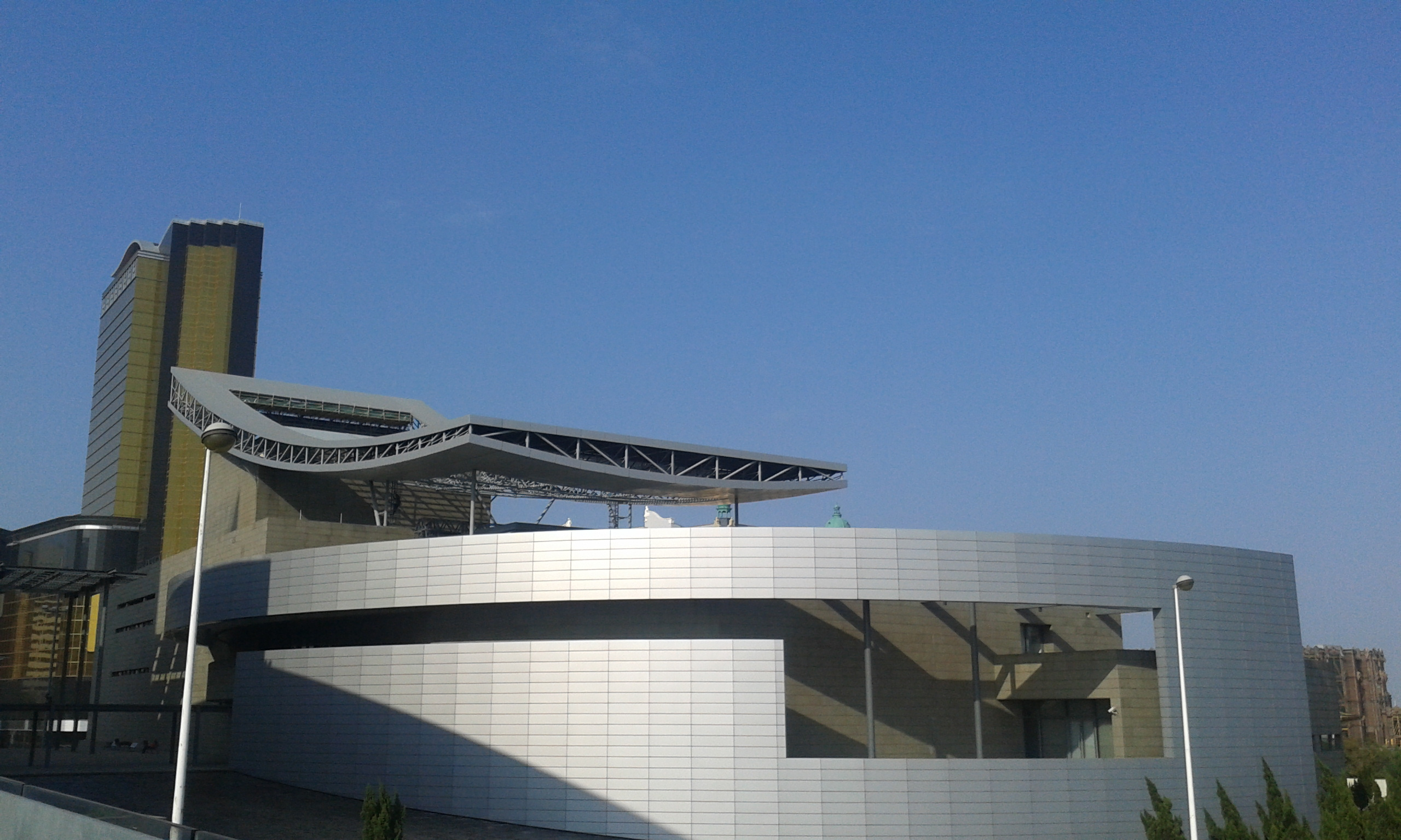 Macau Cultural Centre